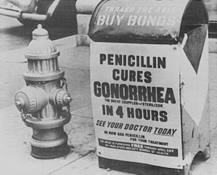 A poster attached to a curbside mailbox offering advice to World War II servicemen: Penicillin cures gonorrhea in 4 hours.